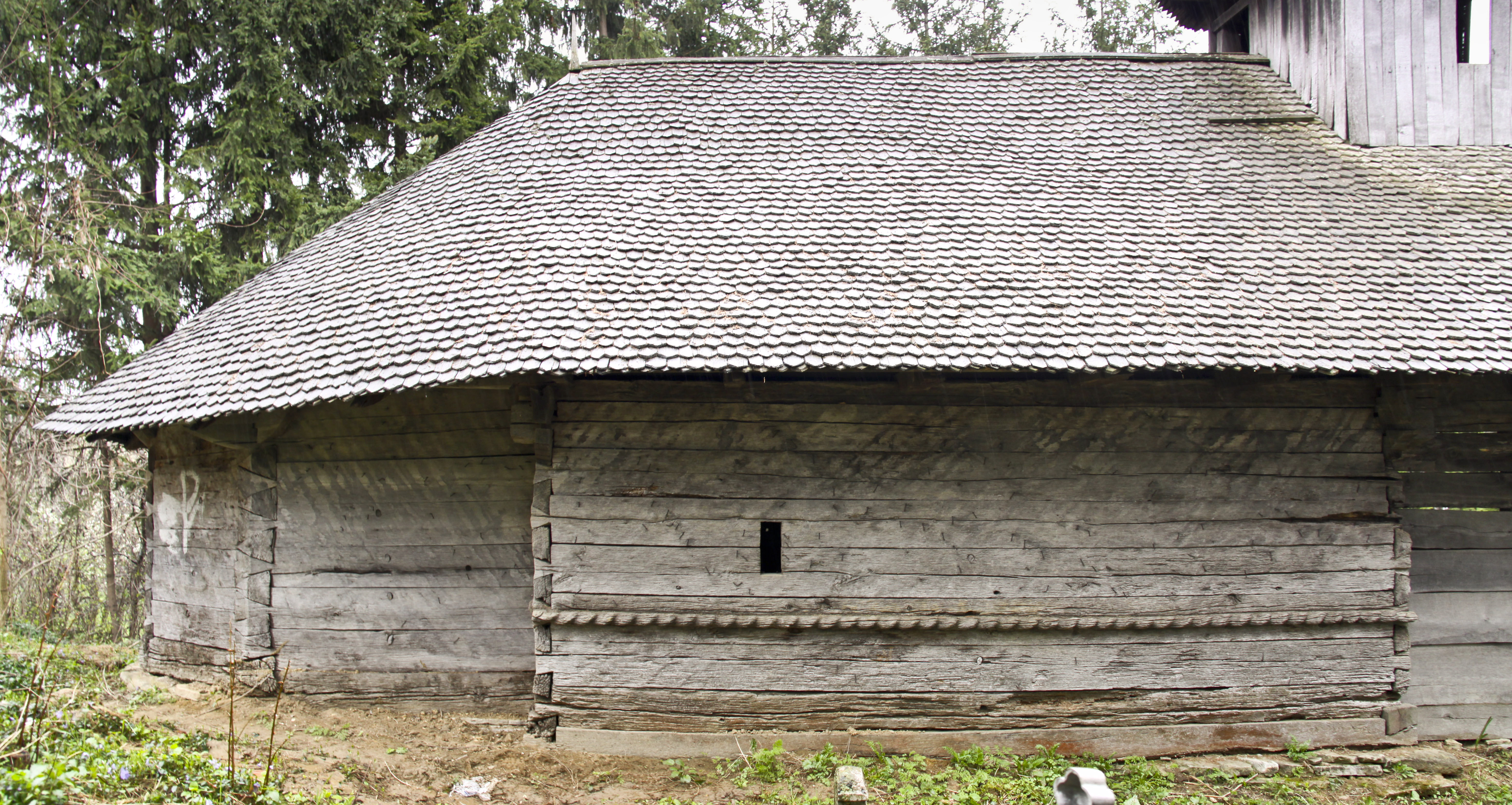 Mesteacăn, Dâmboviţa county, Romania: the wooden church, North side.